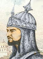 The 4th ruler of the Hotaki dynasty